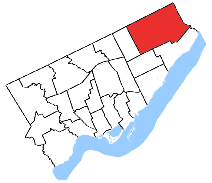 Map of the Scarborough—Rouge_River electoral district showing its borders from 1987 to 1996. Created by SimonP.